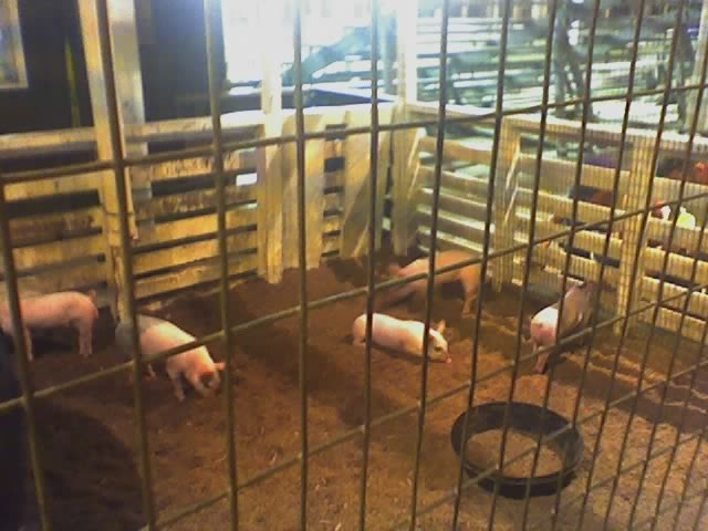 state fair picture